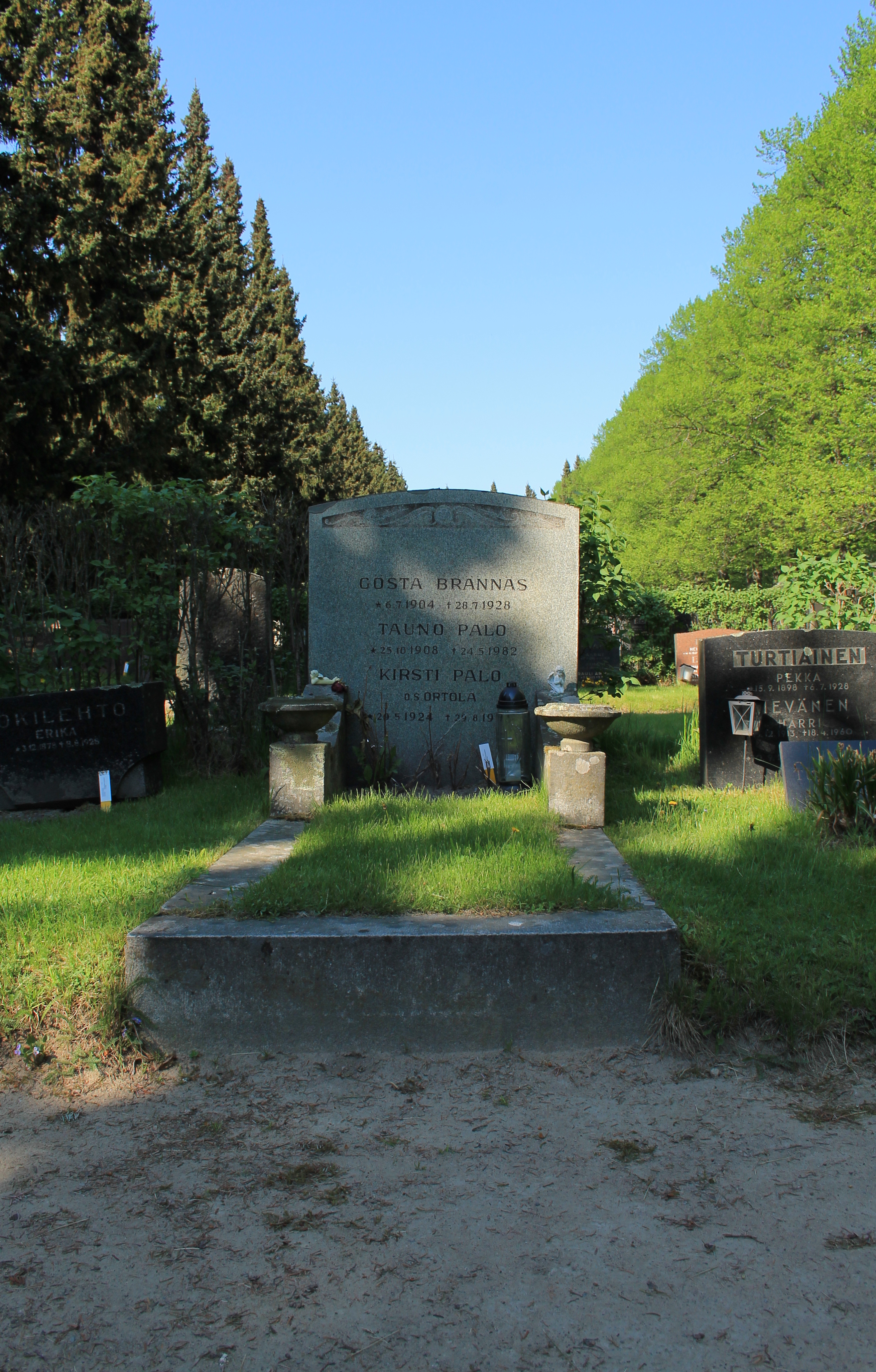 Gravestone of Tauno Palo at the Malmi Cemetery.